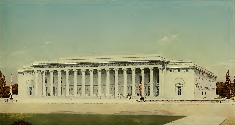 Design of the George Washington Victory Memorial Building to be located on the Mall in Washington, DC